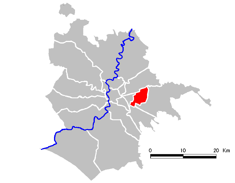 Locator maps of Rome